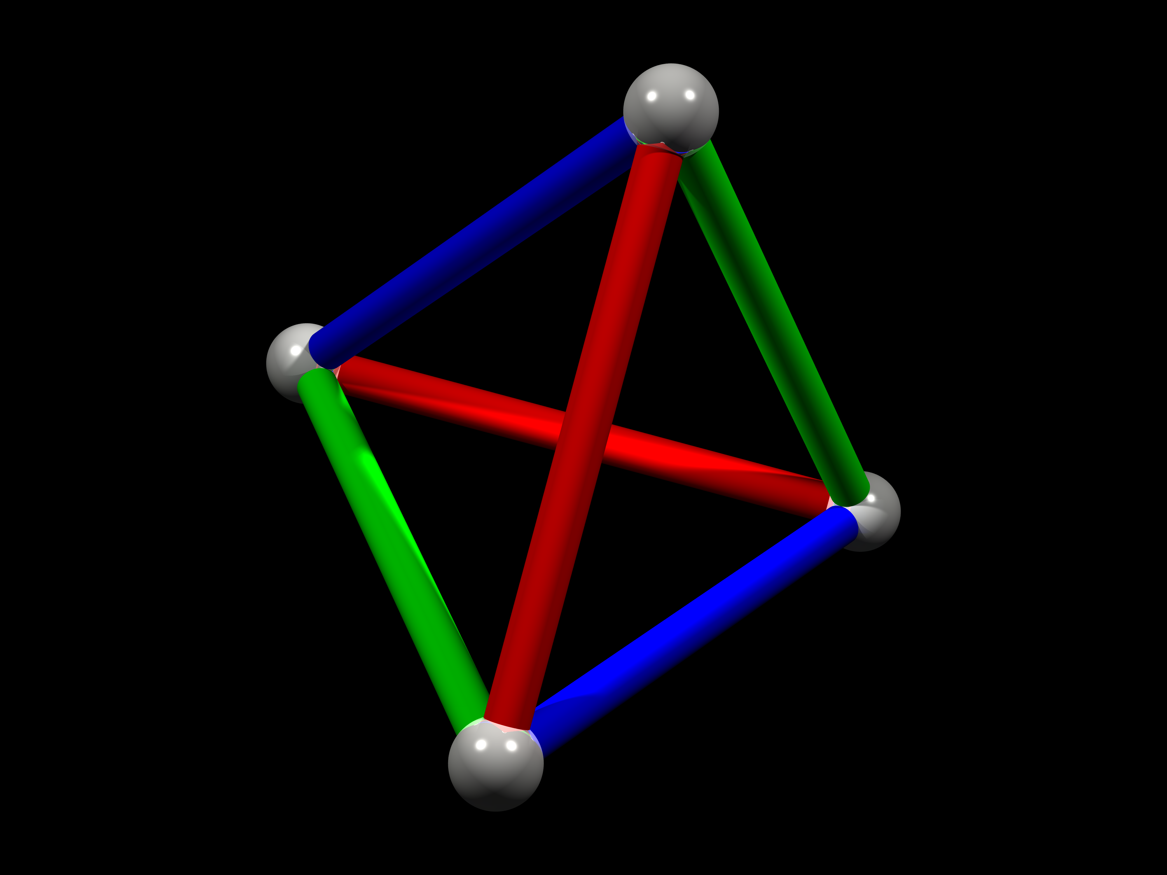 A raytraced ball and stick model of a tetrahedron, made with POV-Ray.